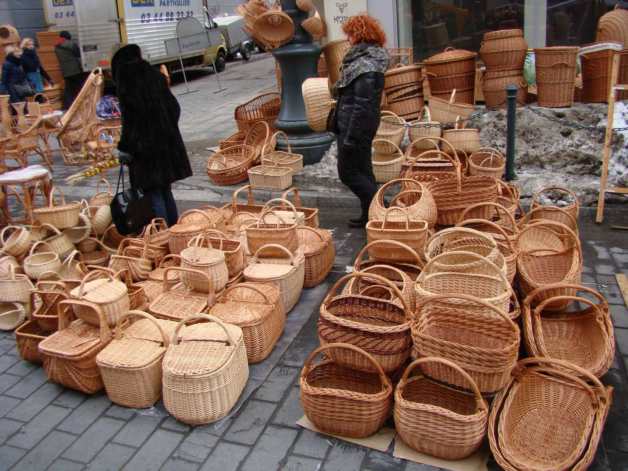 Baskets in Casimir's Fair (Kaziuko mugė)